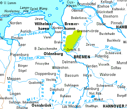 Location of the Osterholz Geest region in Lower Saxony, Germany